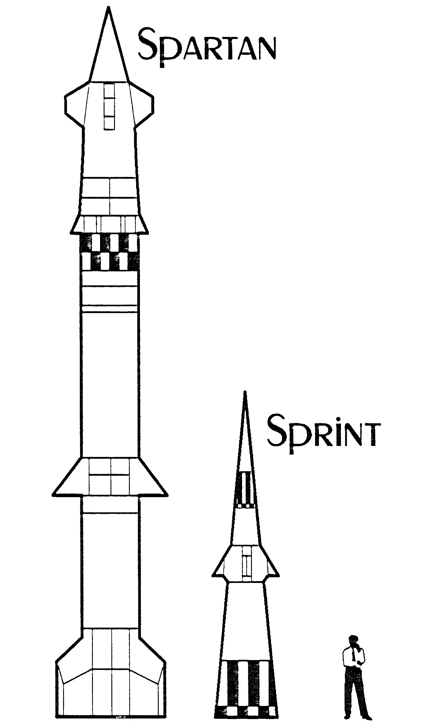 During the Cold War, the United States, two nuclear-charged intercept missiles, its latest developments were the Spartan and Sprint missiles. This image is a cut from the original